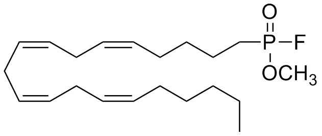 Structure of methoxy arachidonyl fluorophosphonate (MAFP)